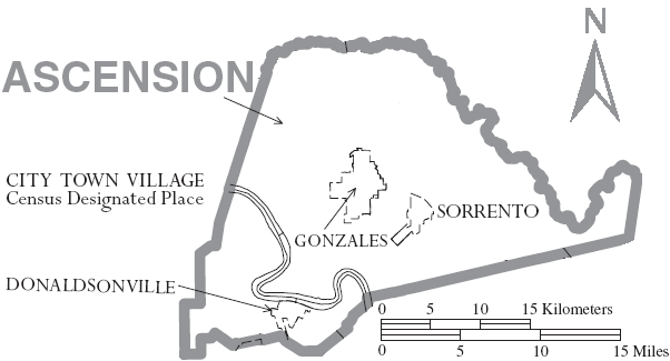 Map of Ascension Parish, Louisiana, United States with municipal boundaries